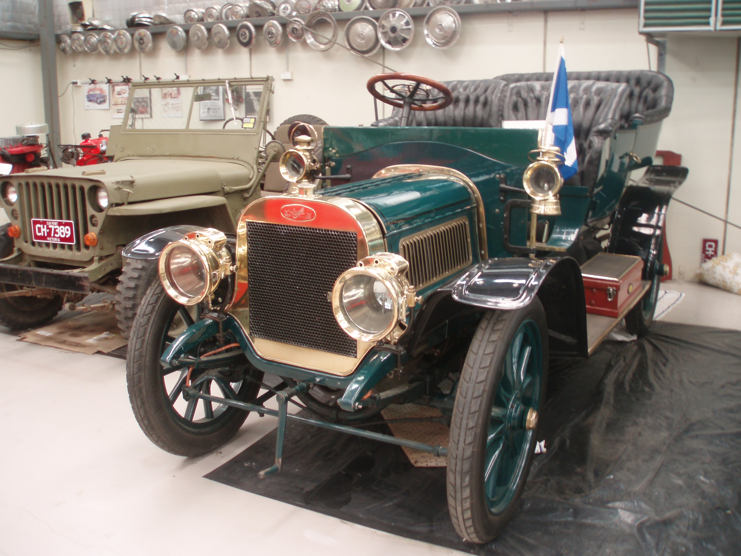 Vintage Argyll tourer. Part of a private collection. Argyll was a Scottish manufacurer.